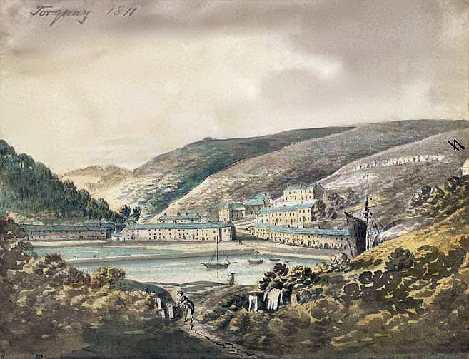 Painting of Torquay in 1811 before its expansion.